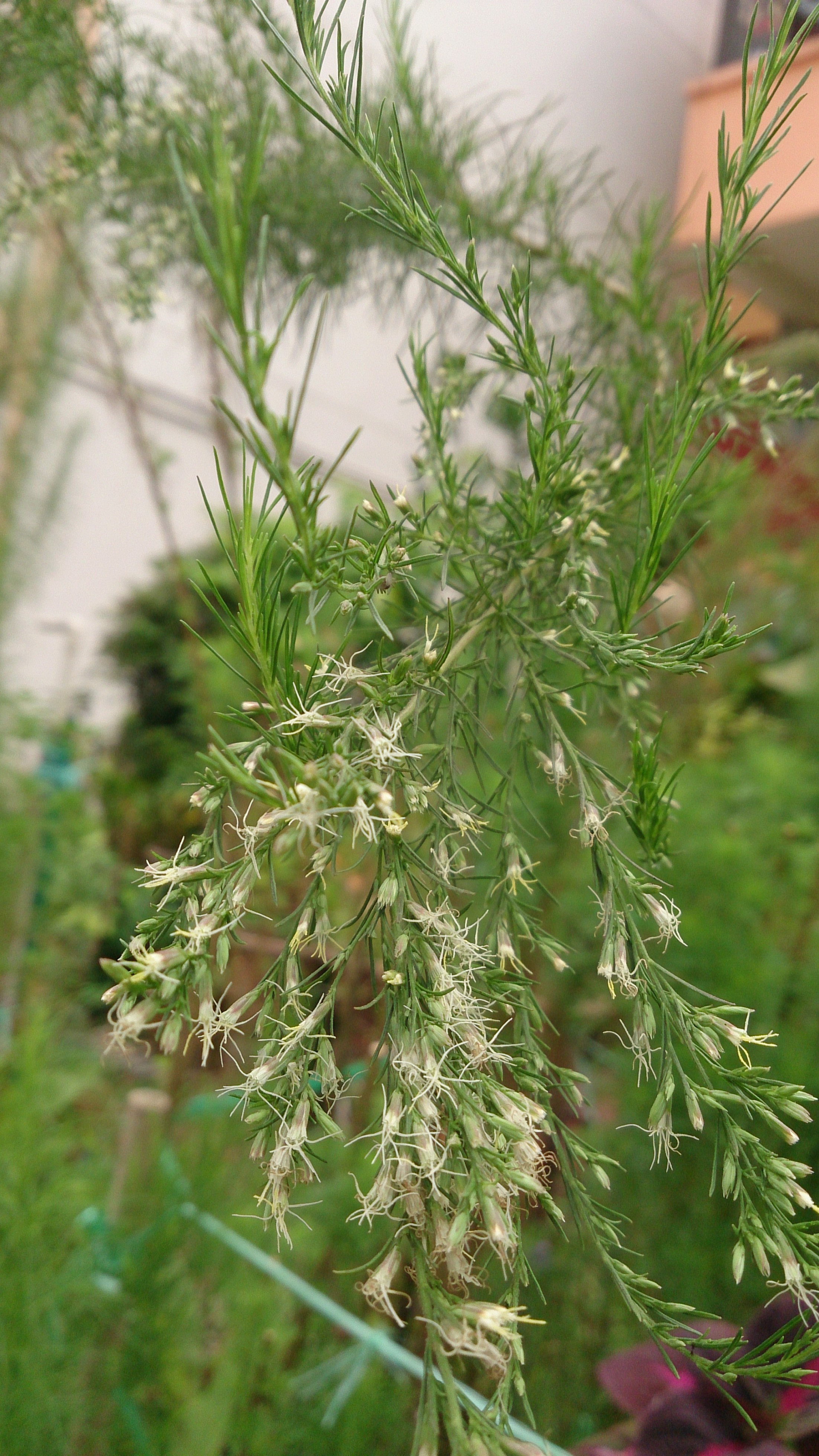 Artemisia scoparia showing flowers